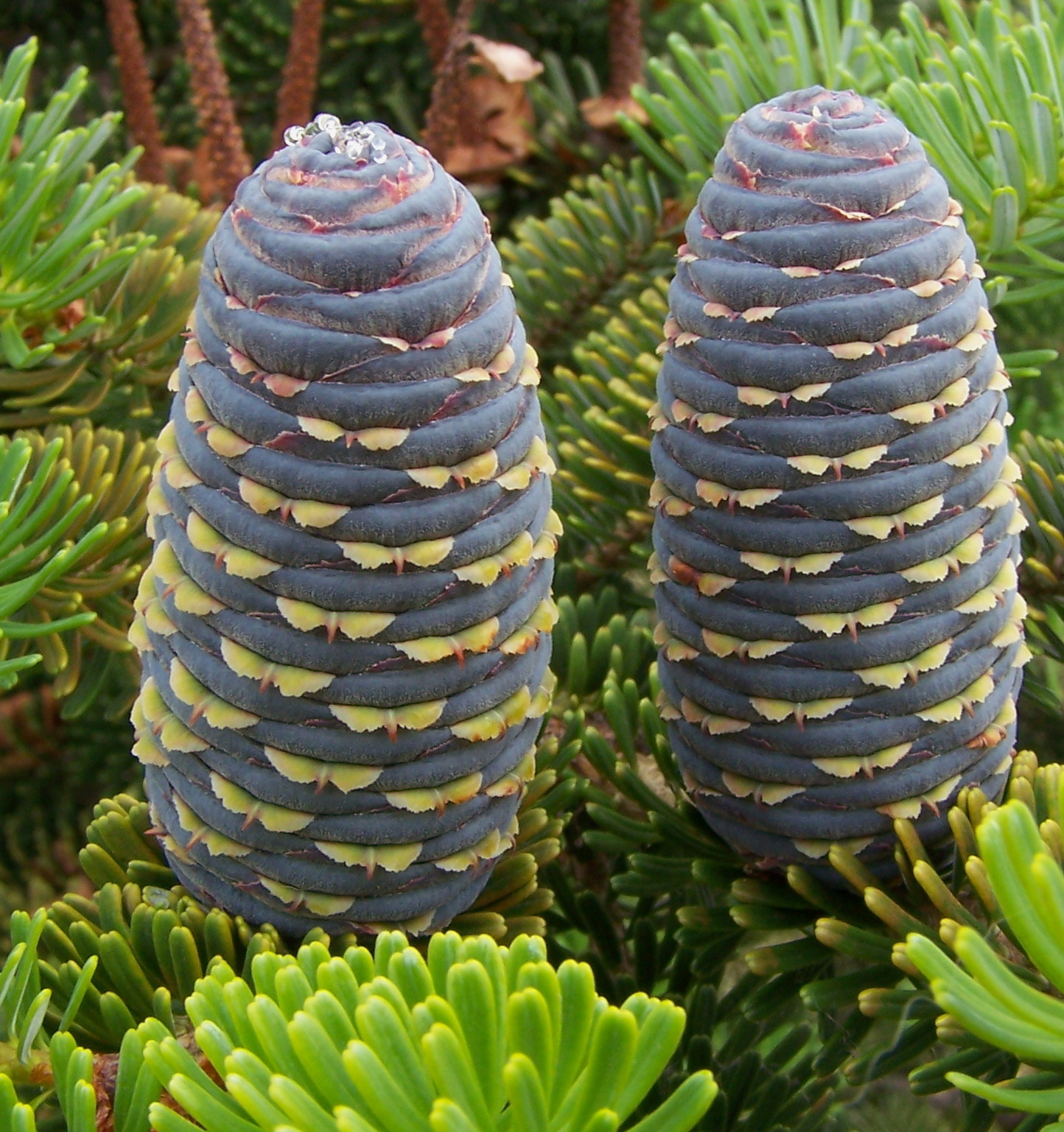 Korean Fir (Abies koreana) cone.